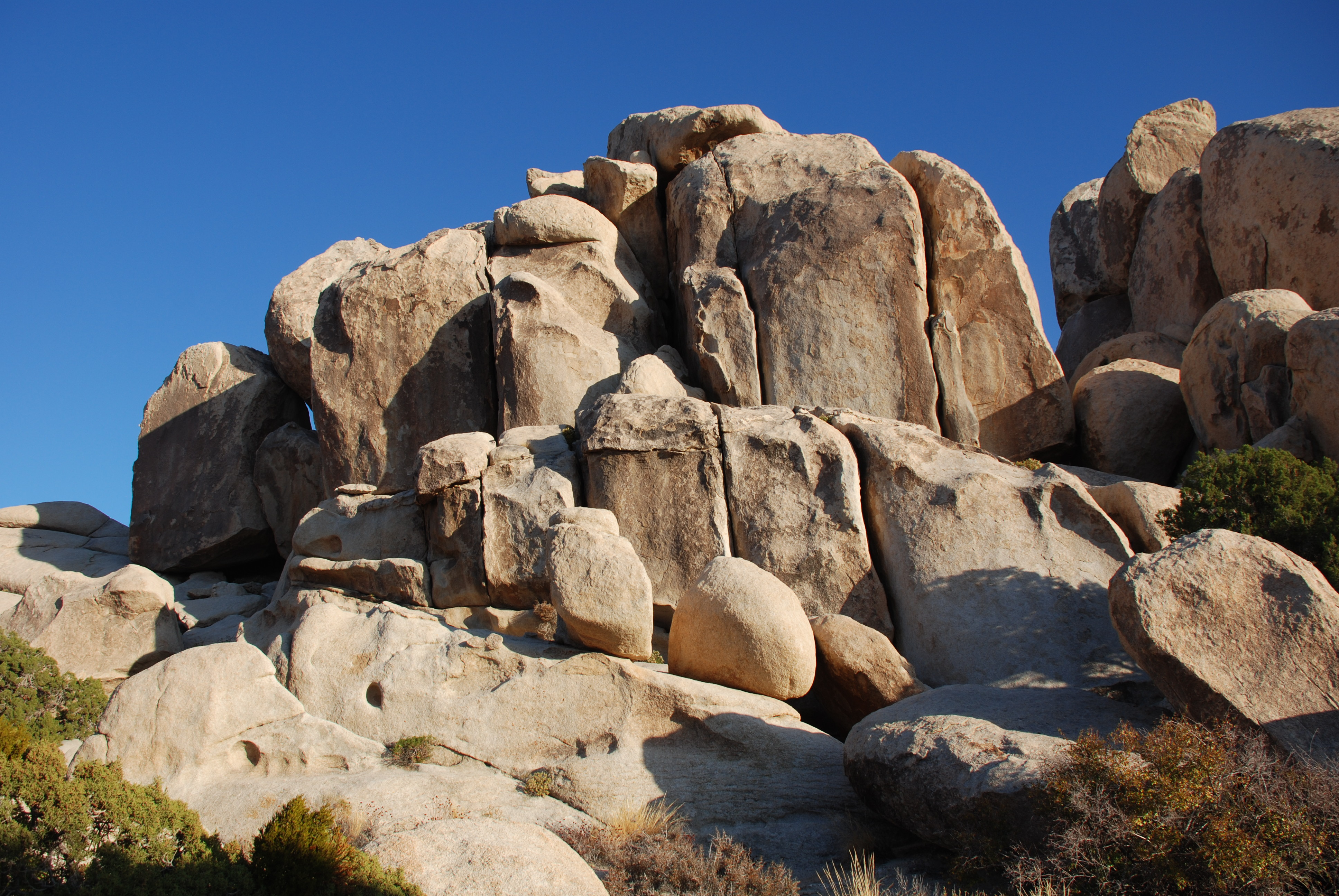 Joshua Tree National Park: North Horror Rock at Hall of Horrors area at Sheep Pass.